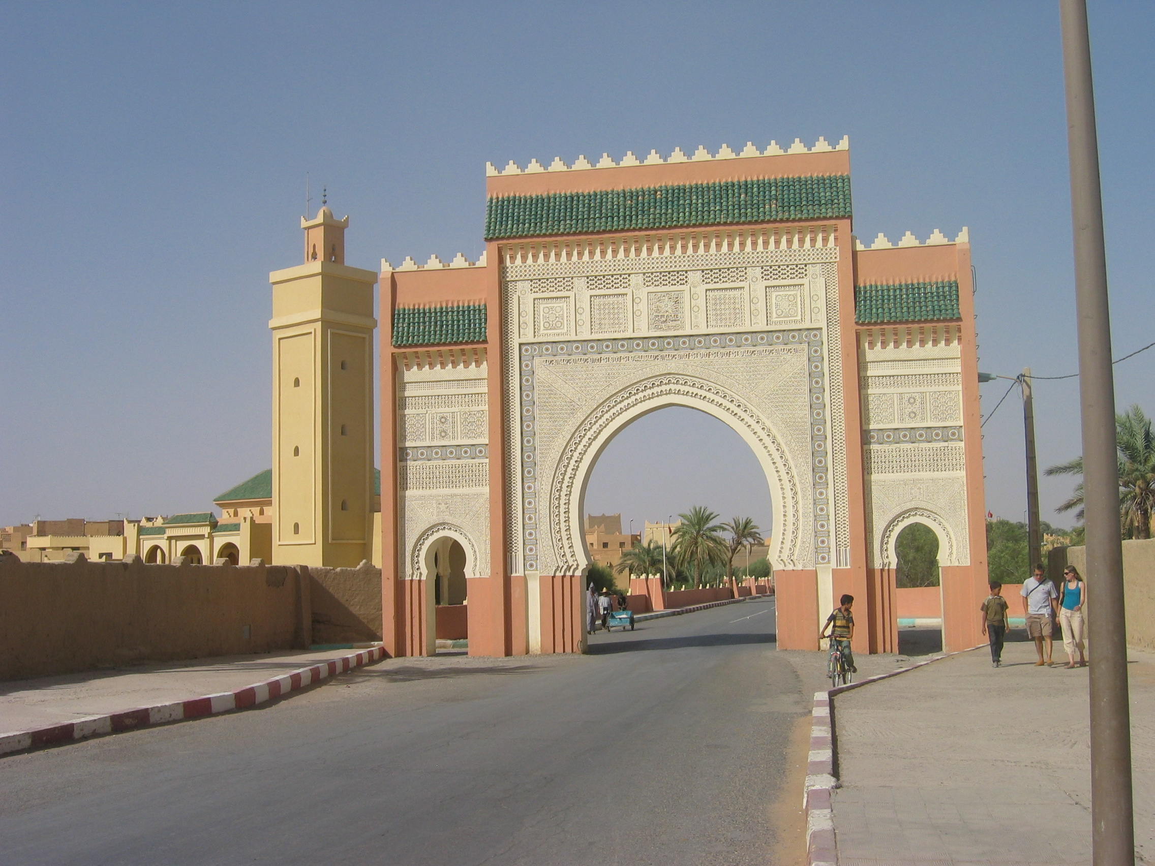 Al-Raisani Morocco